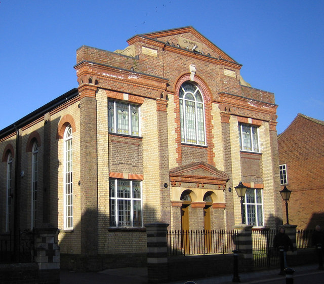 Luton: High Town Methodist Church (2) This is one of a pair of adjacent chapels on the north-west side of High Town Road which, I think, now form the High Town Methodist Church. The tablet in the upper triangular pediment reads: CHAPEL 1852